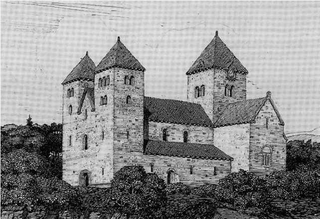 The old cathedral church in Hamar as painter Olaf Nordhagen (1883-1925) thought it looked like.